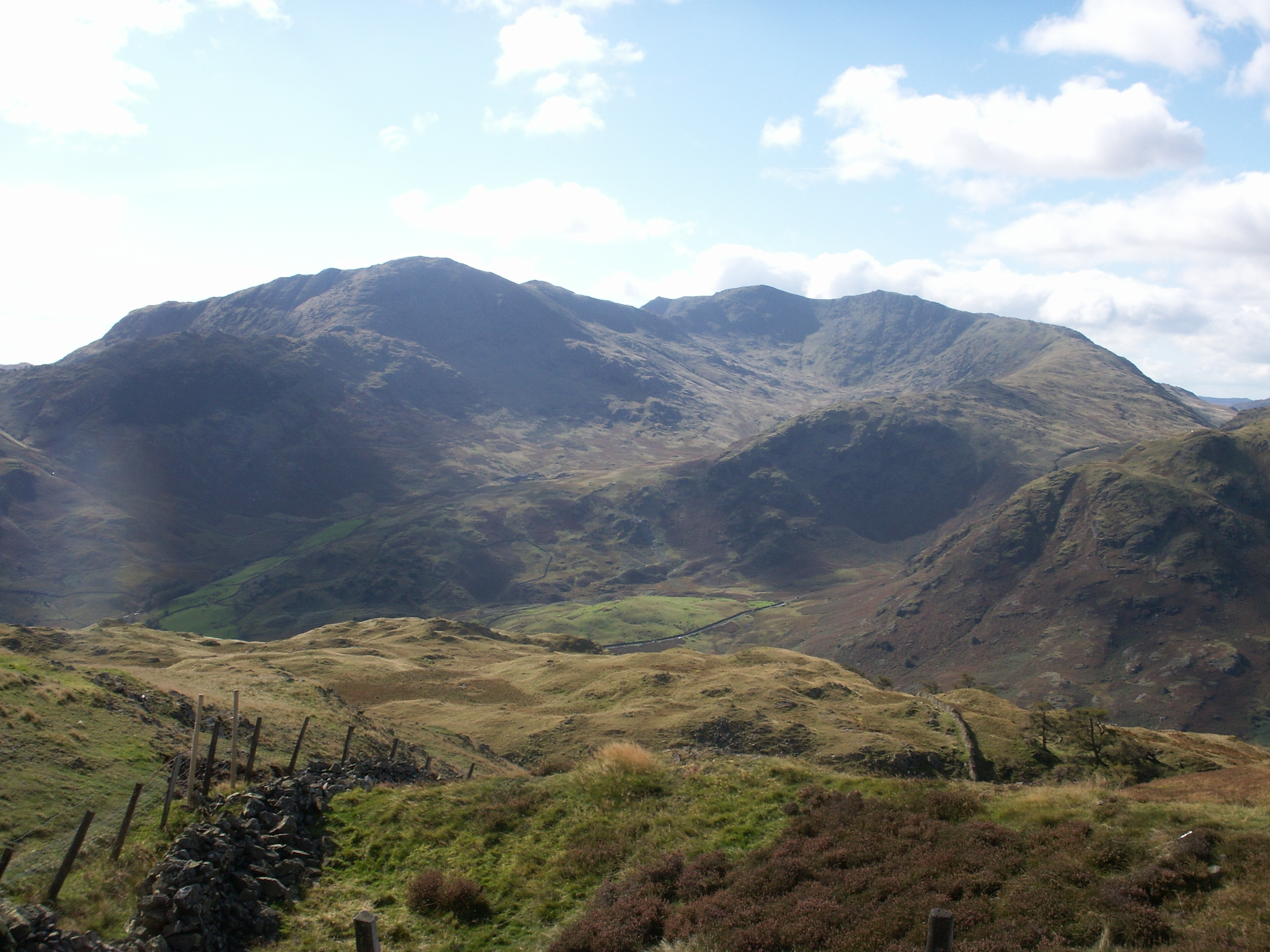 Own photo of Wetherlam and Swirl How in Lancashire's Furness Fells Taken from Lingmoor Fell GFDL